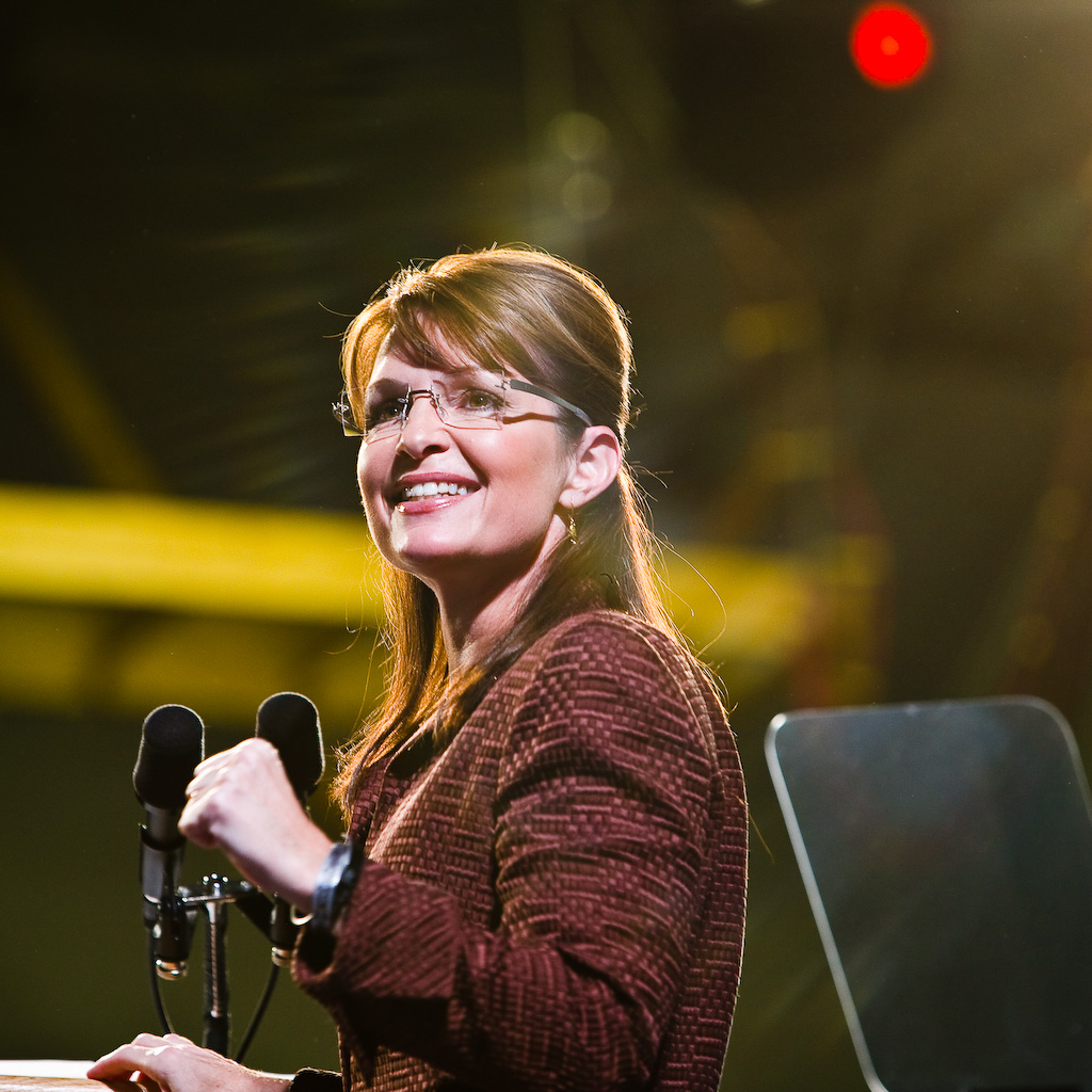 Governor Palin in Dover, New Hampshire on October 15, 2008.